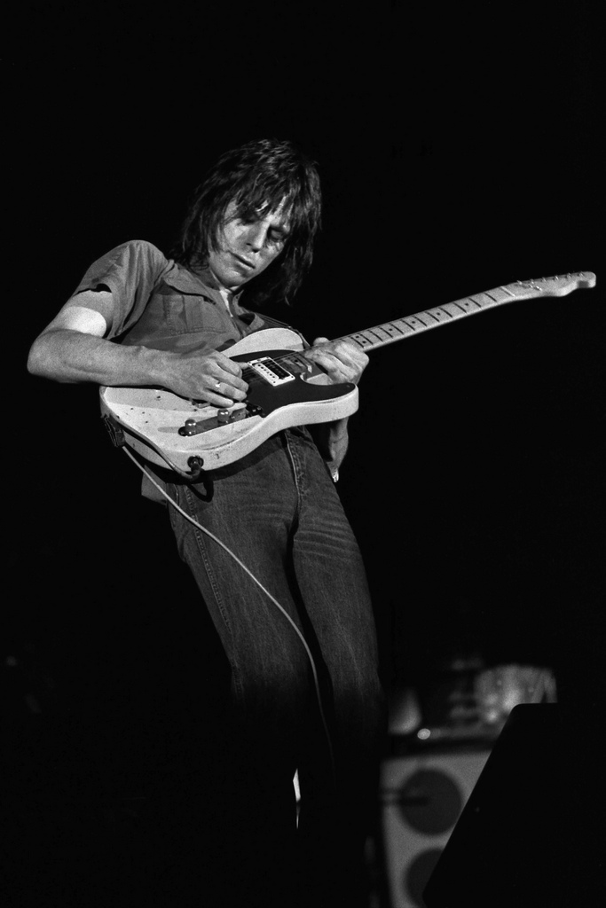 Jeff Beck, Jaap Eden Hal, Amsterdam 5-7-1979